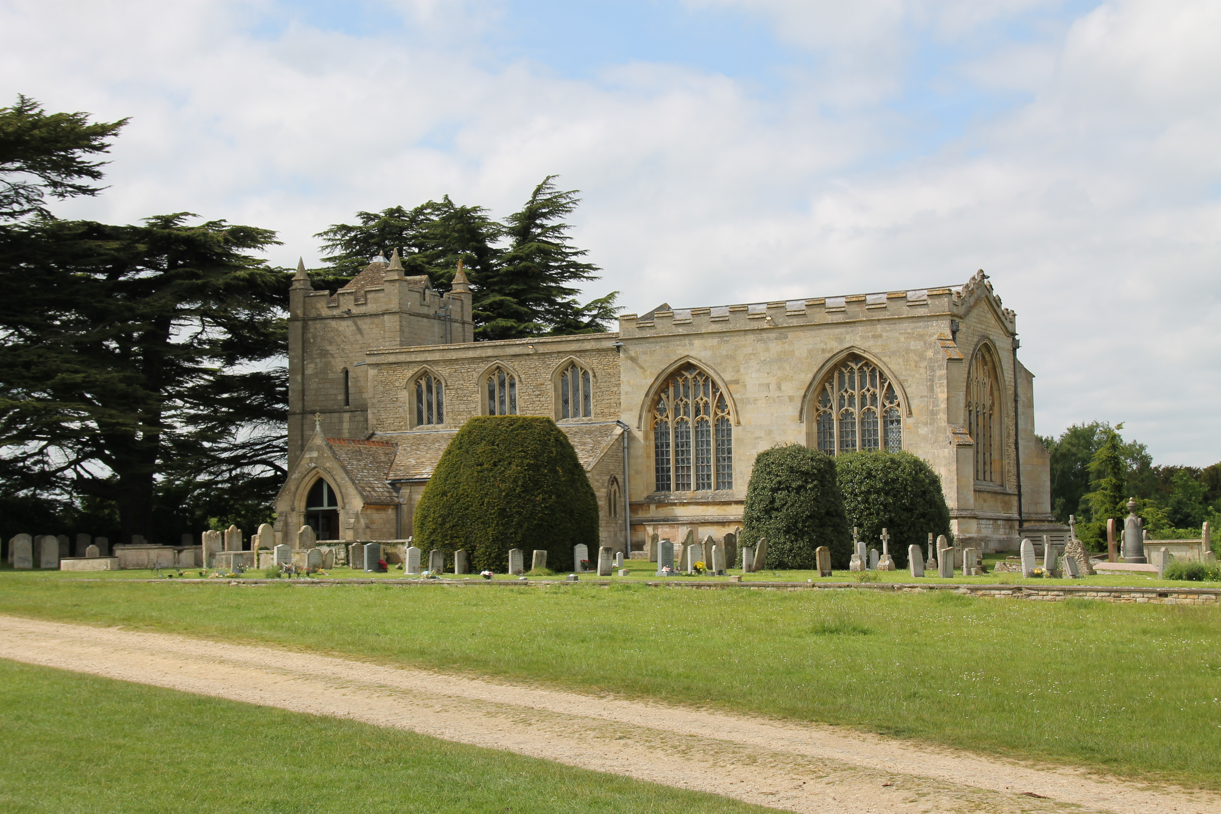 St Mary the Virgin Church in Marholm, Cambridgeshire, dates from the twelfth century.